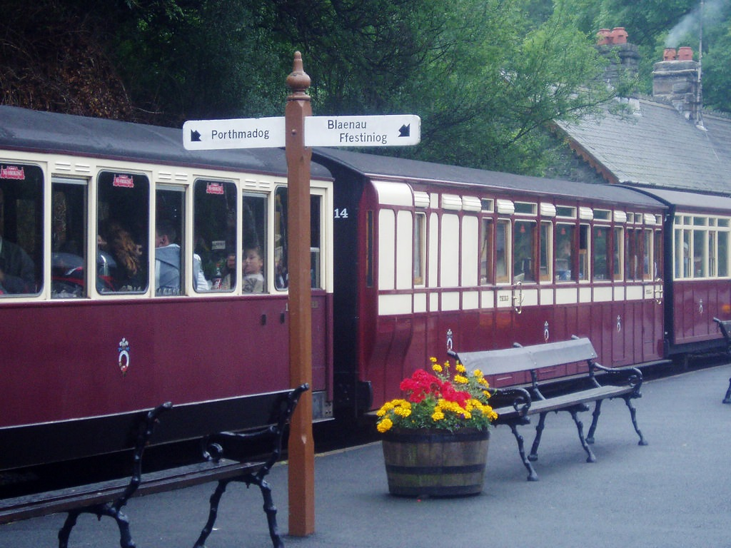 Ffestiniog Railway coaches at Tanybwlch station with a sign indicating from which platform trains for the two termini depart. Coach no 14.